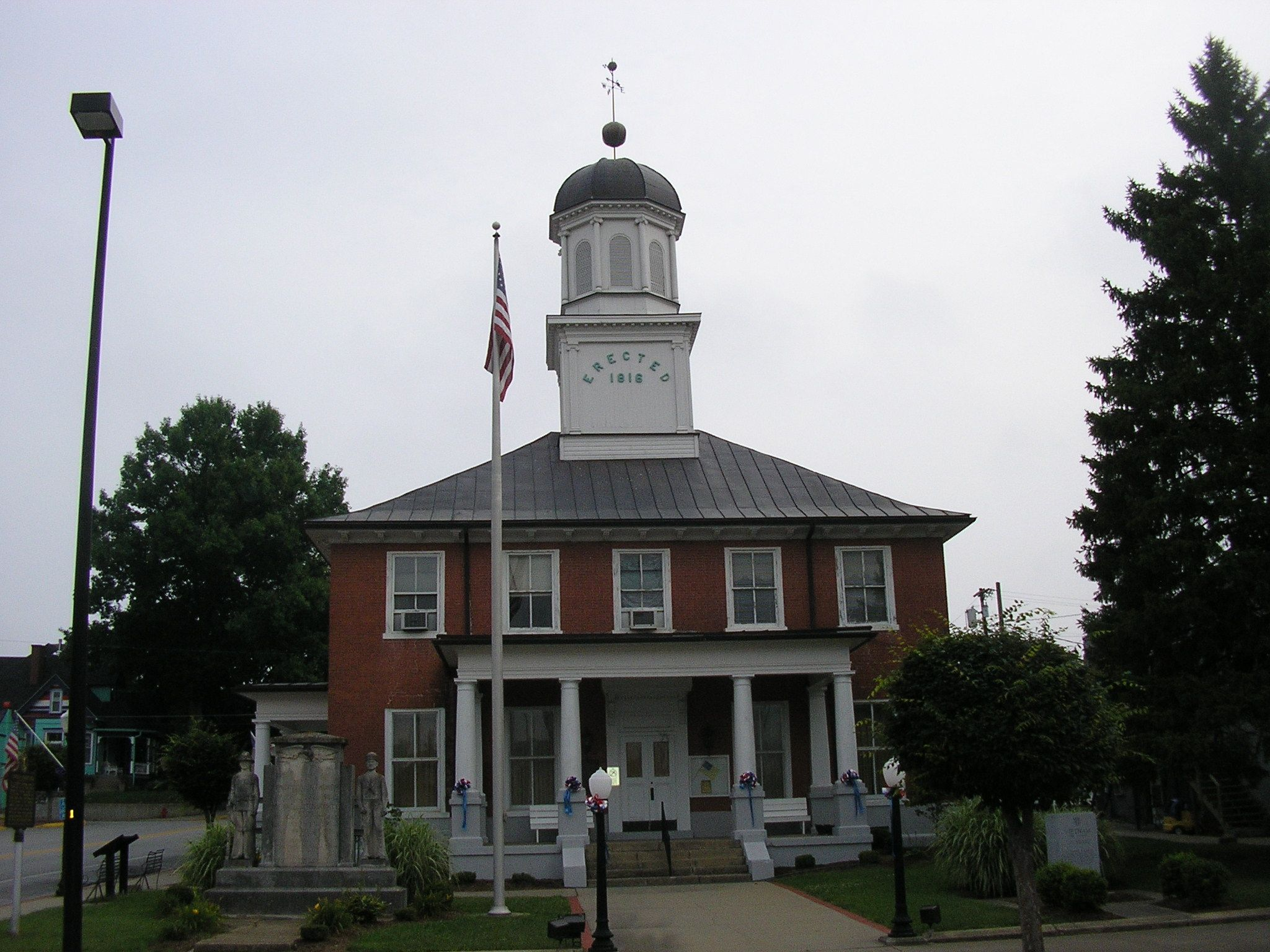 Washington County courthouse Given to by former Wikipedian for the purpose of being on Wikipedia. It is the oldest operating court house west of the Appalachin Mountains.